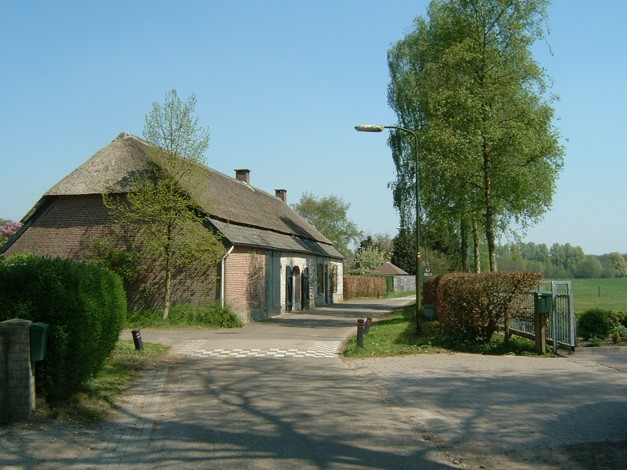 Hout Oost 9-9a, Geldrop